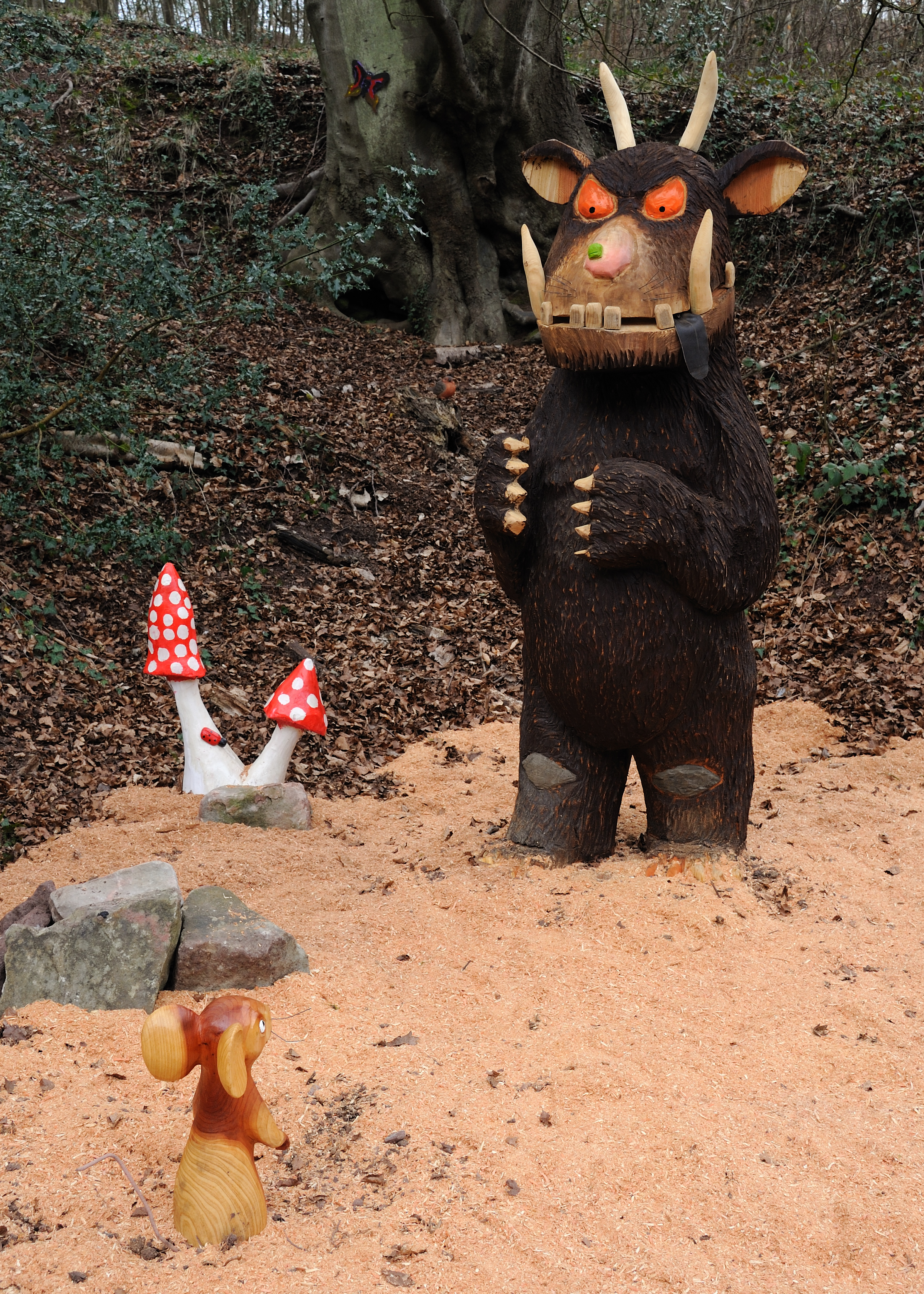 Sculptures based on characters from the story "The Gruffalo" in the Forest of Dean.